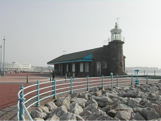 Site of Morecambe's first railway station. The first railway to reach Morecambe was the 'Little' North Western (a named coined to avoid confusion with the mighty London & North Western Railway) in 1848. The terminus, a wooden hut, was located on the end of the wooden jetty. Five years later both were replaced by stone structures and, whilst the station was later replaced by the Midland Railway's splendid Promenade station, the original building survives today as a well maintained cafe.